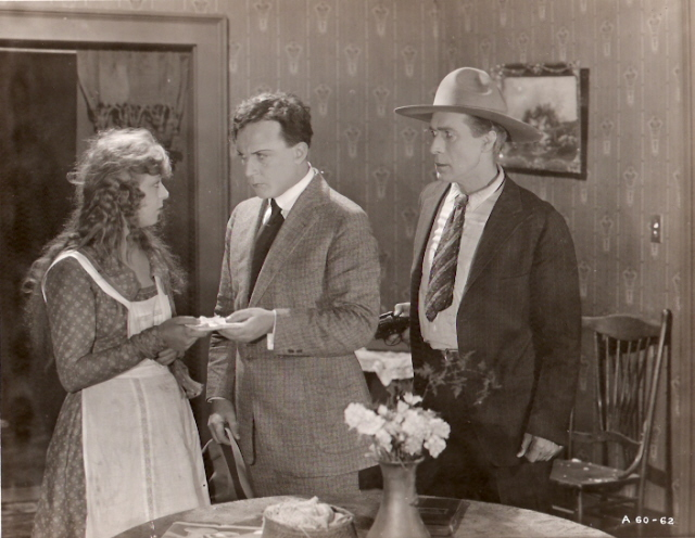 Left to Right: Seena Owen, Arthur Shirley, and William S. Hart in the American western film Branding Broadway (1918) - publicity still.